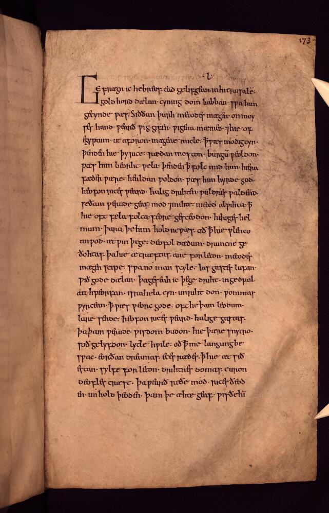 'The Cædmon Manuscript': parts of Genesis, Exodus and Daniel in Old English verse, illustrated with Anglo-Saxon drawings, c. A.D. 1000.; 173